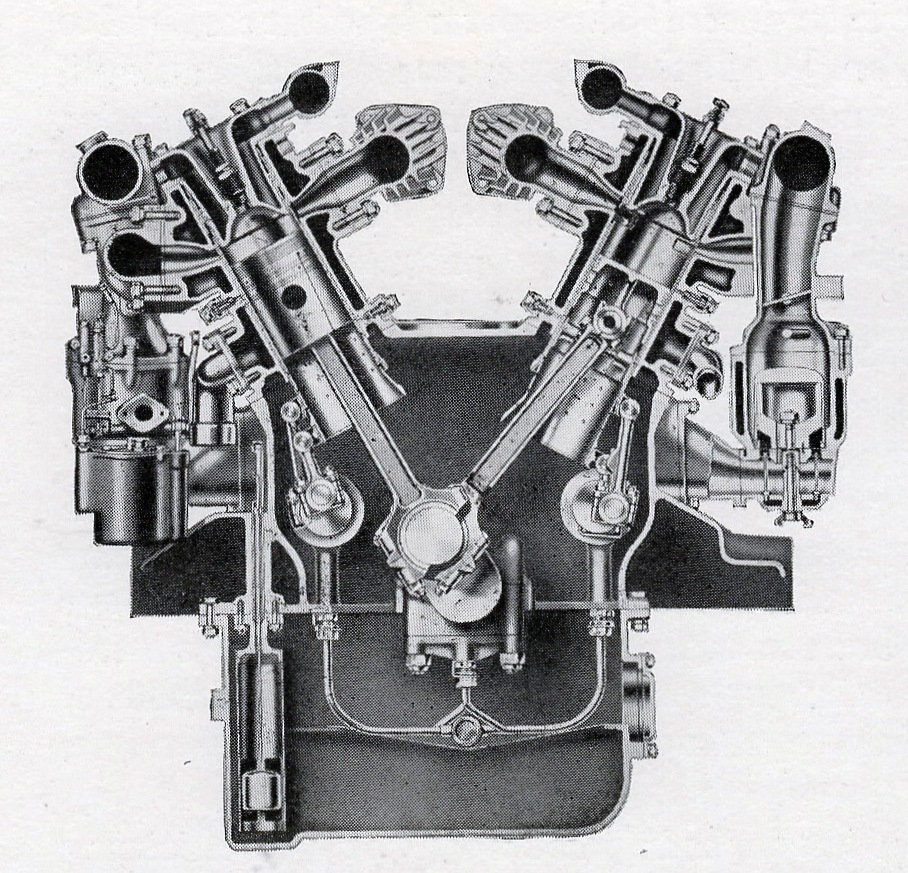 Section view of Daimler (Coventry) Double-Six 50hp sleeve-valve engine